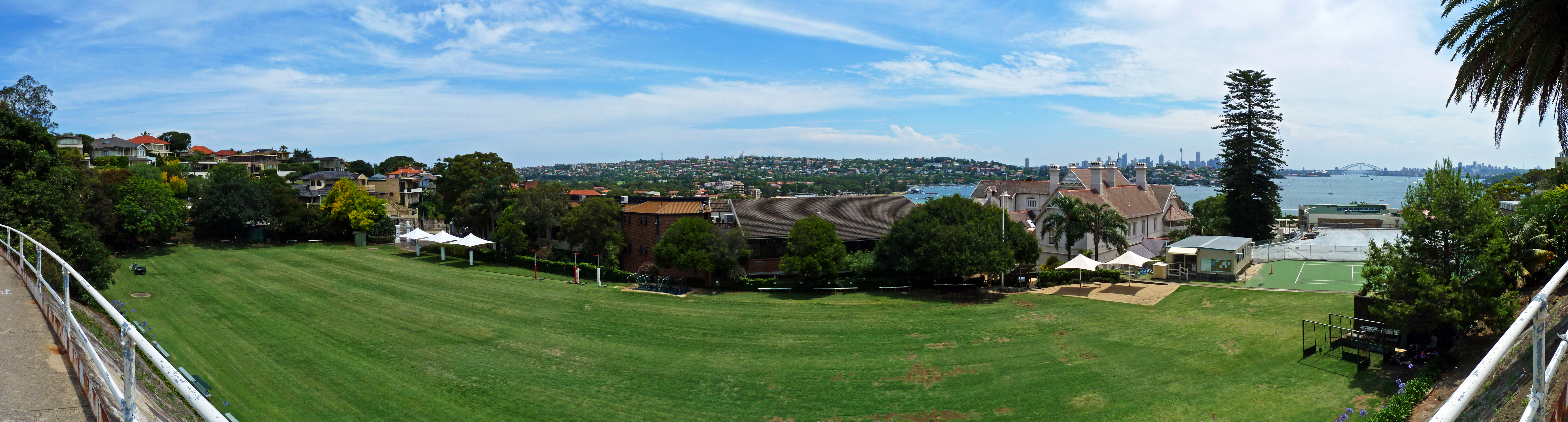 Kambala School, 794 New South Head Road, Rose Bay, New South Wales, Australia.